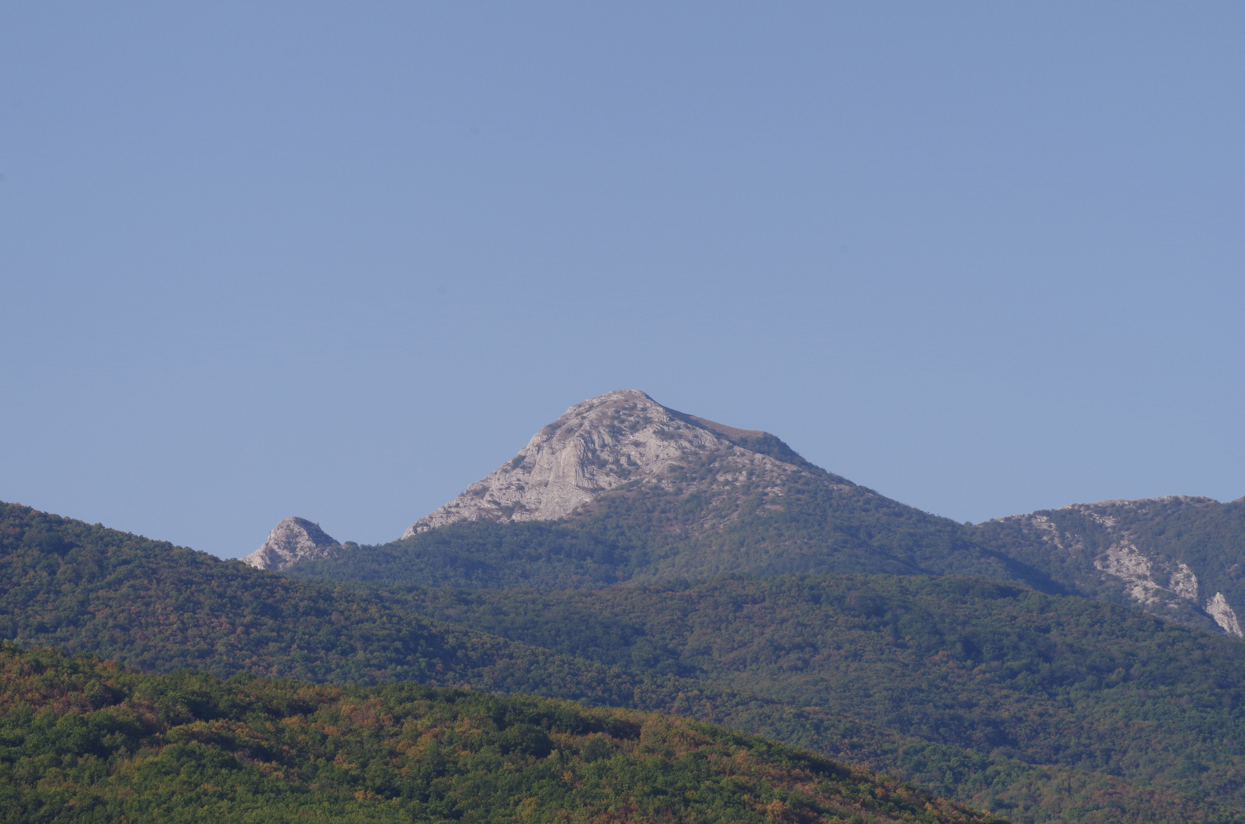 Peak Orle (1,480 m) on the mountain Višešnica